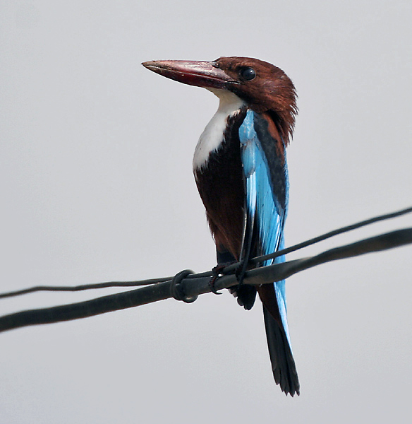 White-throated Kingfisher Halcyon smyrnensis at Hodal in Faridabad District of Haryana, India.